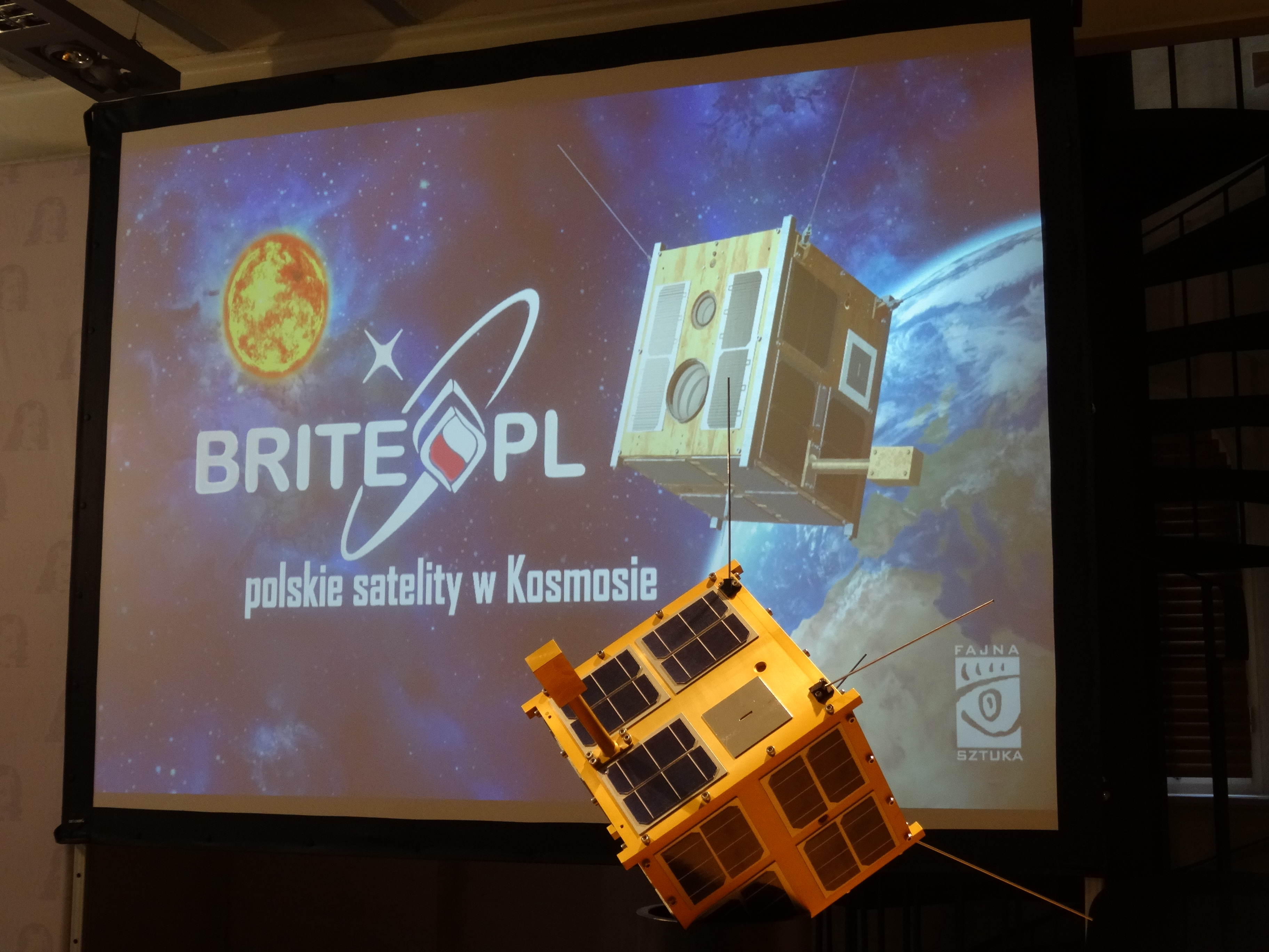 The model of the Polish satellite BRITE Heweliusz against the background of visualization in Centrum Hewelianum in Gdańsk, after successful launching in 2014